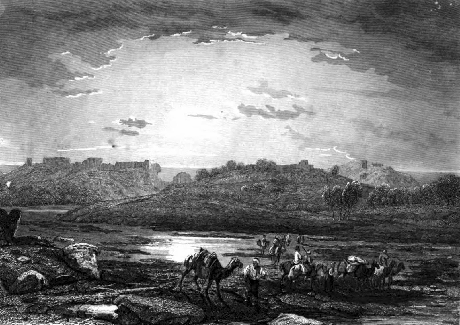 The abandoned site of the ancient city of Ashkelon